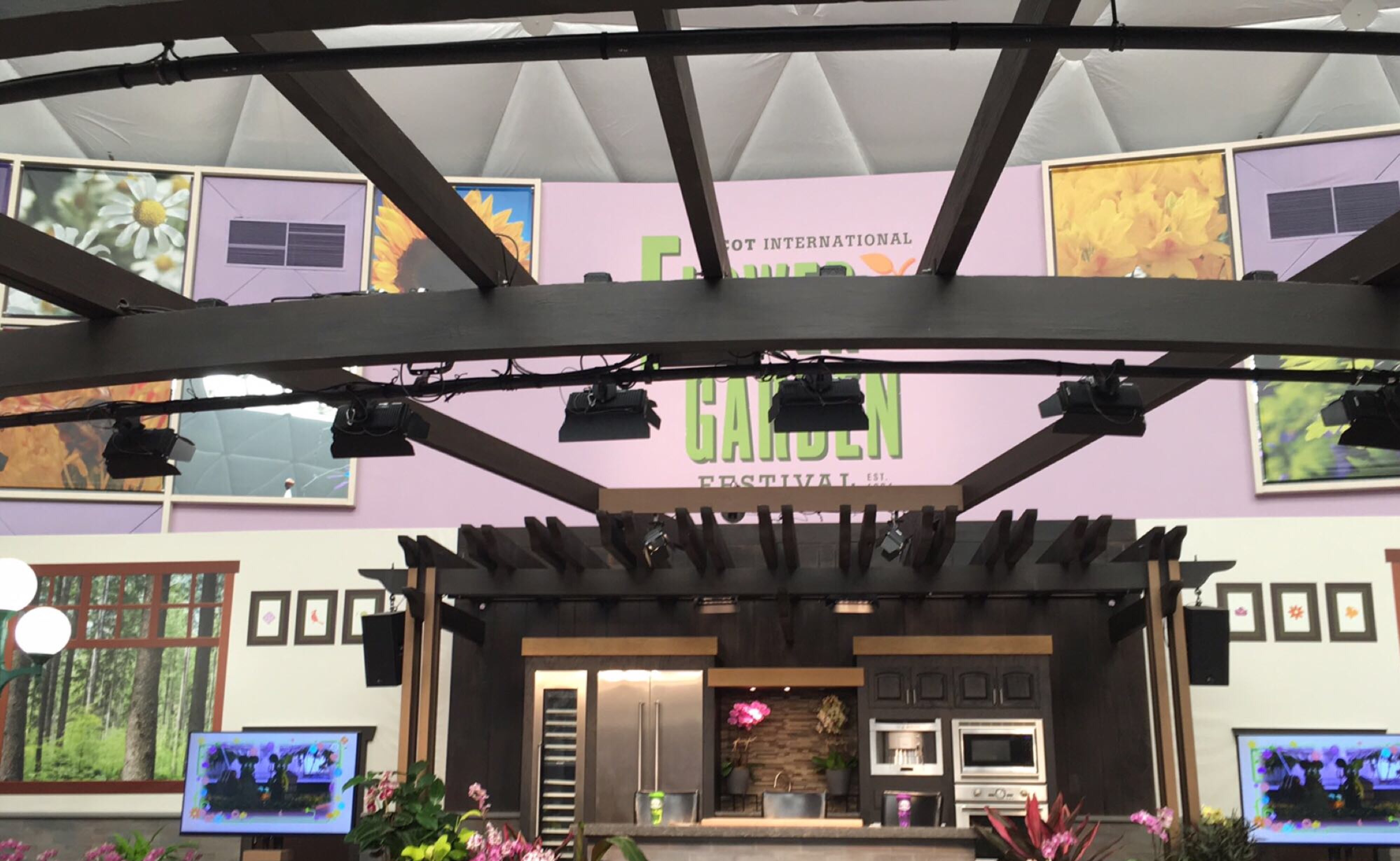 The former entrance to Cranium Command was located behind this stage.